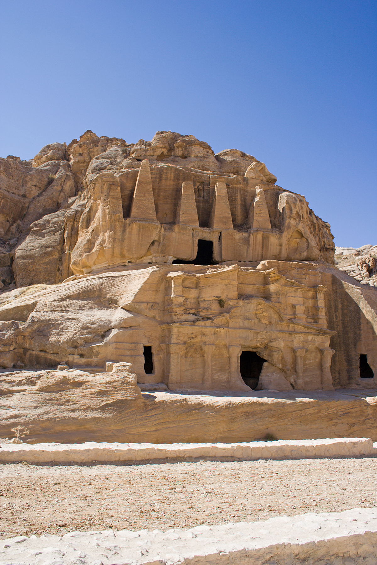 The Obelisk Tomb in Petra.